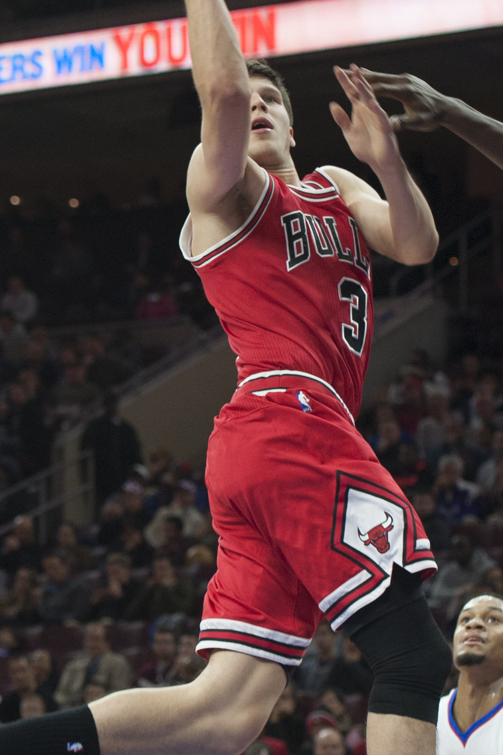 Doug McDermott, Bulls forward, goes up for a layup during the 2nd quarter of play of a Chicago Bulls versus Philadelphia 76ers basketball game Nov. 7, 2014, at the Wells Fargo Center, in Philadelphia. The Bulls beat the 76ers, 118-115, for their fourth straight win. (U.S. Air Force photo/Airman 1st Class Zachary Cacicia)